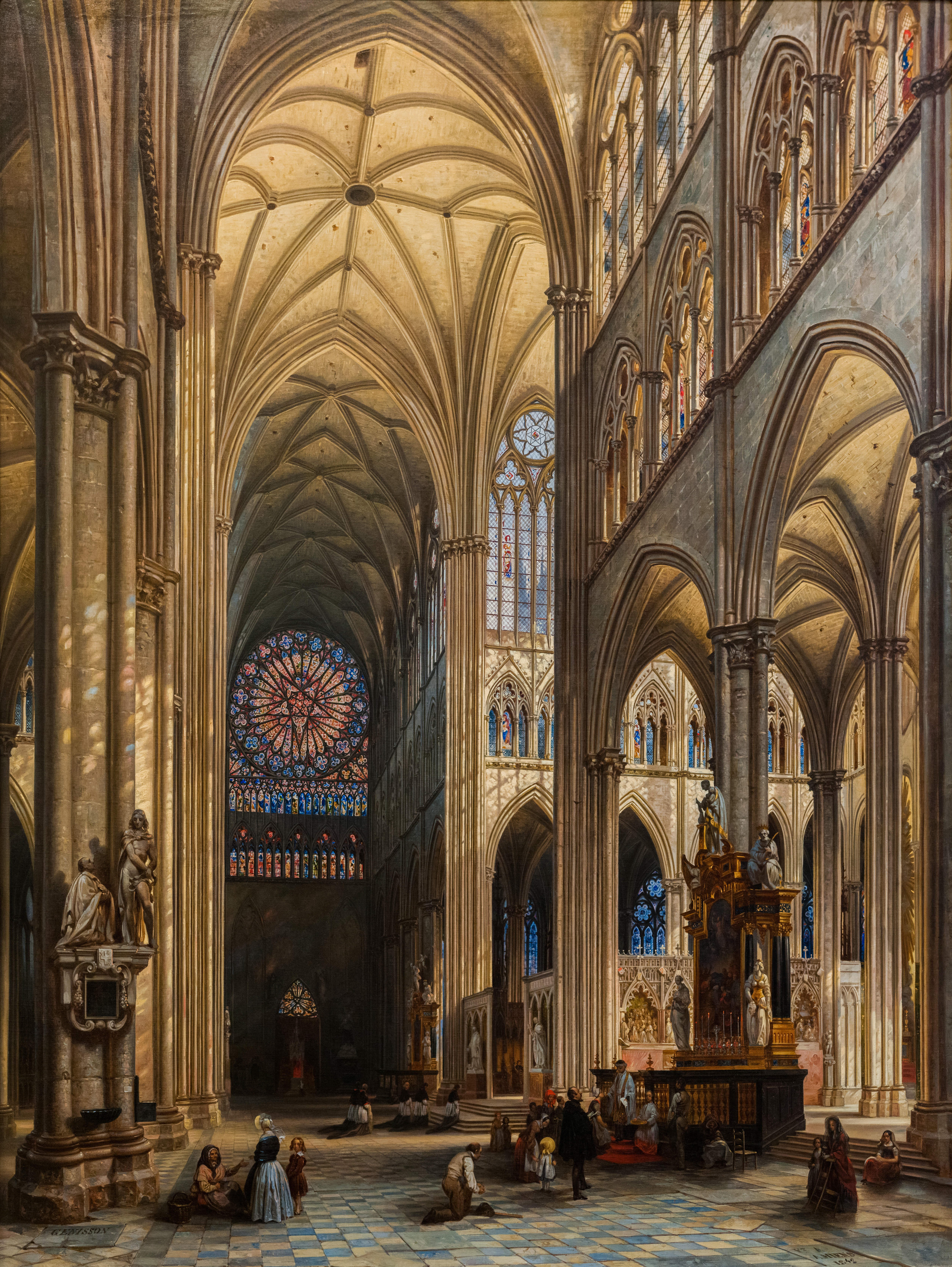 Interior of the Cathedral of Amiens, 1842, oil on canvas, by Jules Victor Génisson. Displayed in the Pinacoteca do Estado de São Paulo.